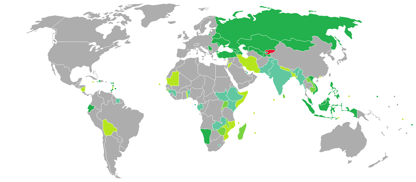 Visa requirements for Kyrgyzstani citizens Kyrgyzstan Visa not required Visa on arrival Electronic authorization or online payment required / eVisa Visa available both on arrival or online Visa required prior to arrival